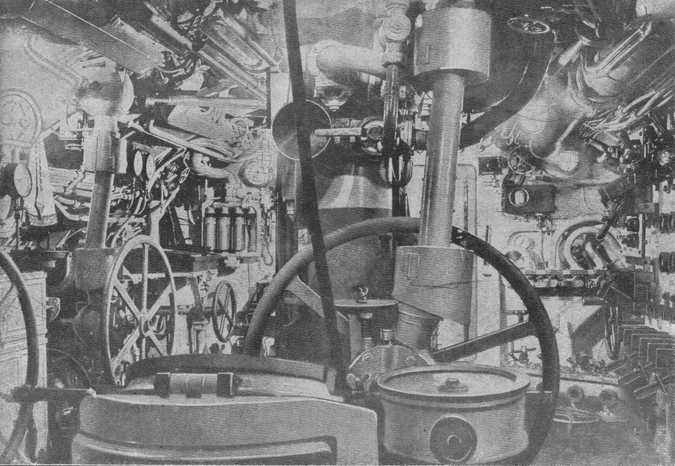 "The interior of the merchant submarine Deutschland Like other submarines, the Deutschland had much intricate machinery; but the Deutschland had also cargo space sufficient for bringing to America several thousand tons of dyestuffs and other materials needed in the American market" (caption)